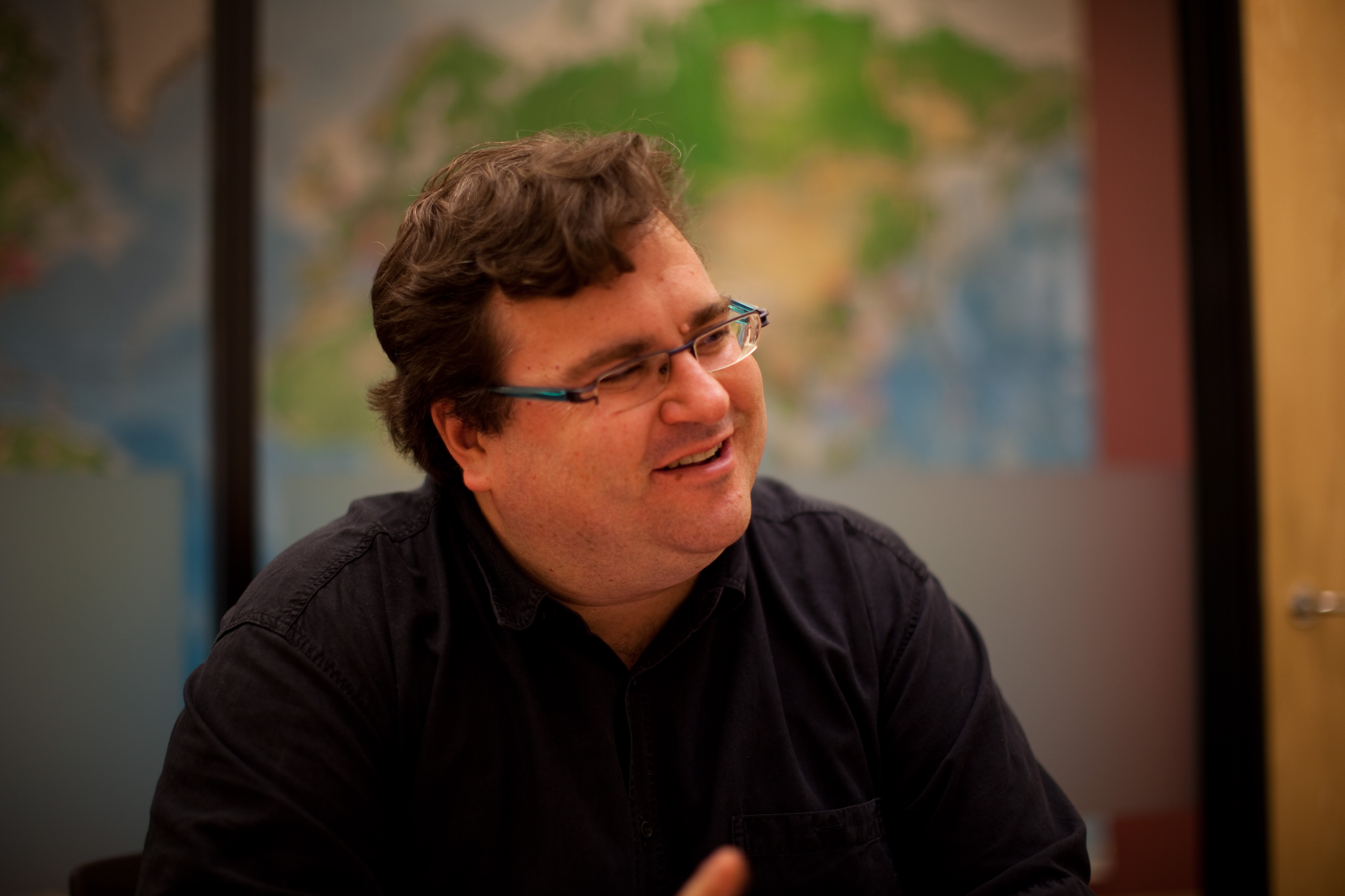 Reid Hoffman, angel investor and connector, speaks at a conference.